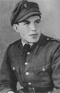 Ukrainian insurgent "Vyshnya"